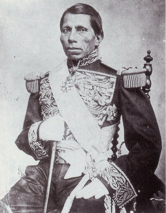 Tomás Mejía (1820-1867), General of the Imperial Mexican Army